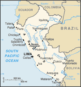 Map of Peru, showing major cities and waterways.